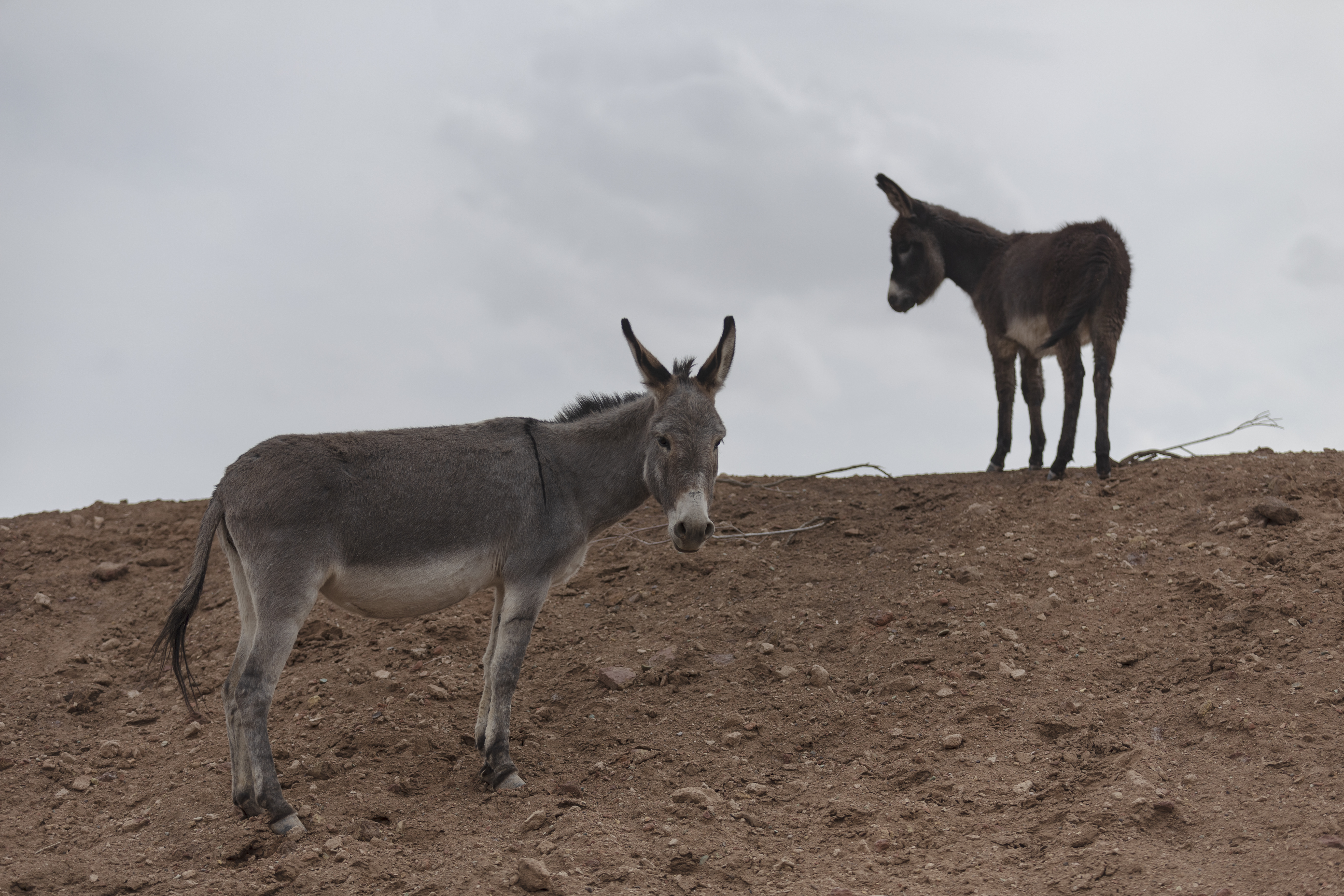 The donkey or ass is a domesticated member of the horse family, Equidae.